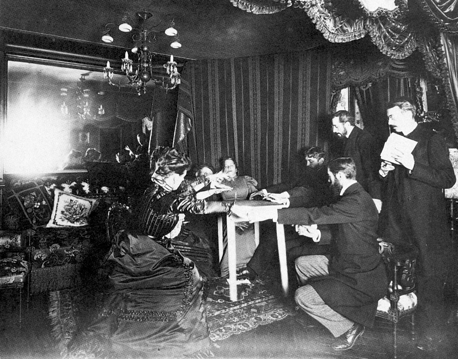 A table levitates in front of witnesses during a séance with medium Eusapia Palladino at the home of astronomer Camille Flammarion in France on November 25, 1898.